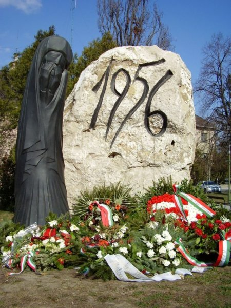 1956 Monument (Budapest, XXII. District, Town Hall Square)